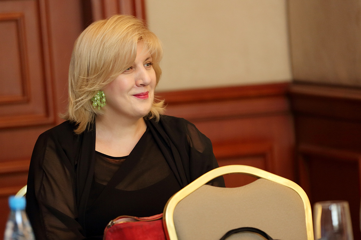 The OSCE Representative on Freedom of the Media, Dunja Mijatovic, attending a seminar in Bishkek, June 2013.